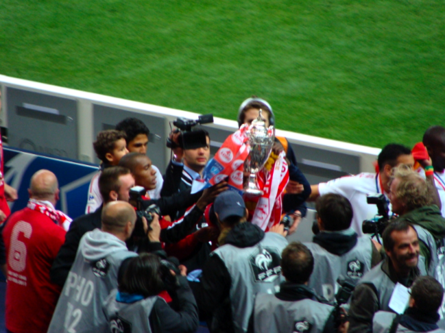 LOSC French Cup Winner